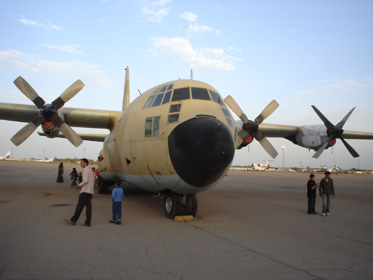 C-130 Hercules still working in Libyan Air Force.